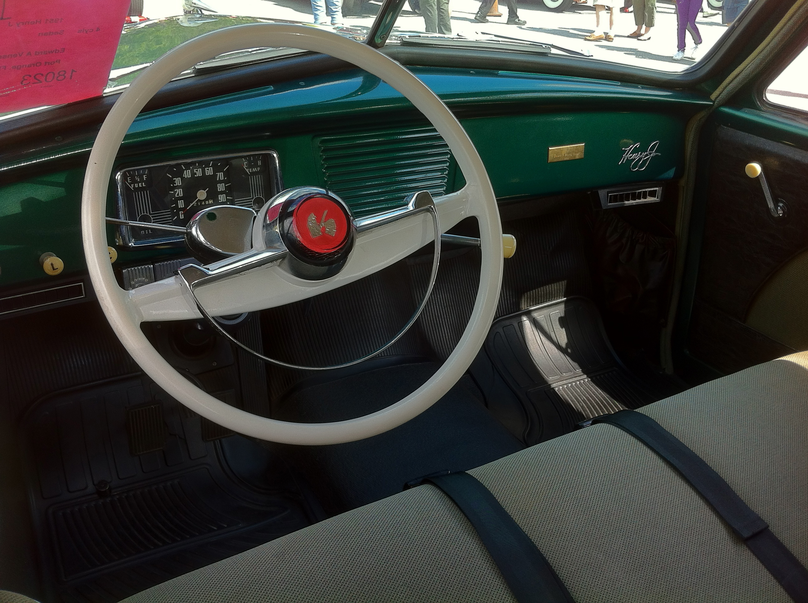 1951 Henry J automobile built by the Kaiser-Frazer Corporation. This is a compact-sized two-door sedan finished in green and powered by a 161 cu in (2.6 L) flat-head six-cylinder engine. Picture taken at the 2013 Antique Automobile Club of America (AACA) meet in Lakeland, Florida, USA.